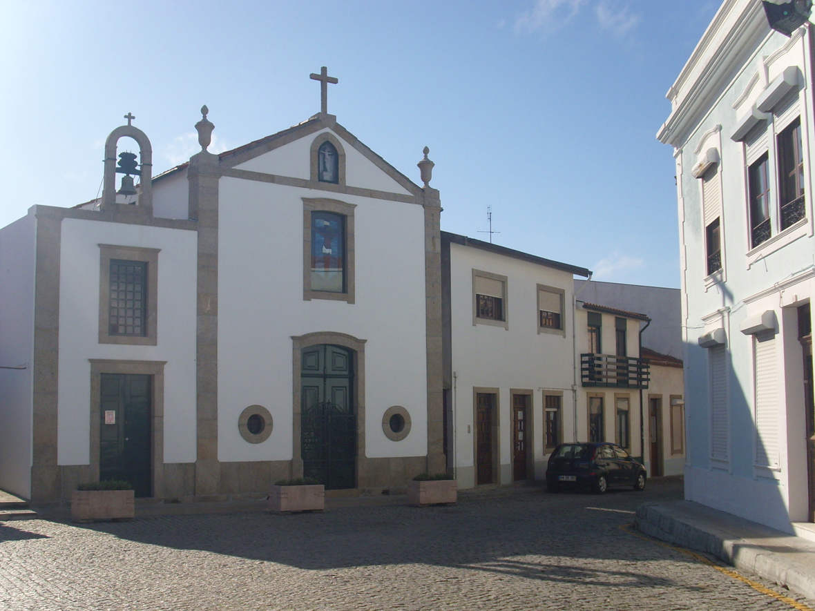 Bonfim Chapel in Povoa de Varzim